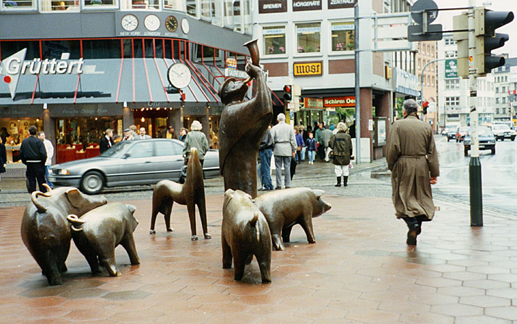 Bremen pig statue